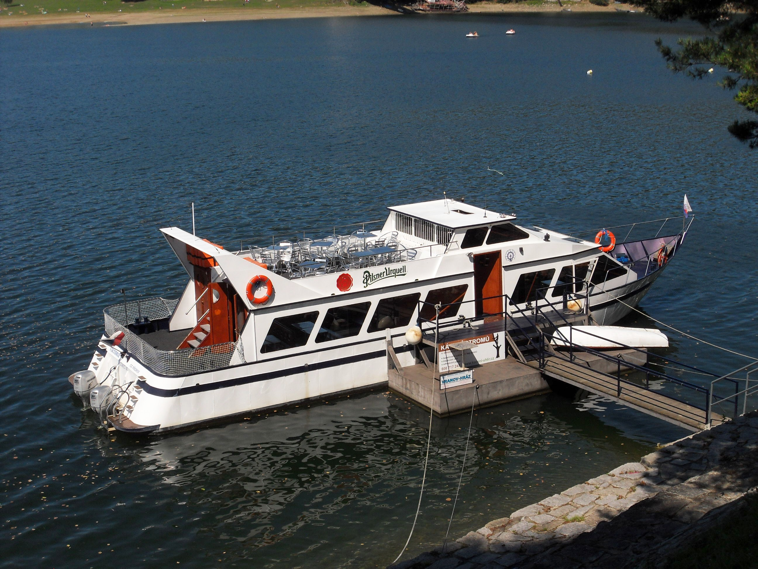 Viktorie ship, Vranov reservoir, Onšov, Znojmo district, Czech Republic